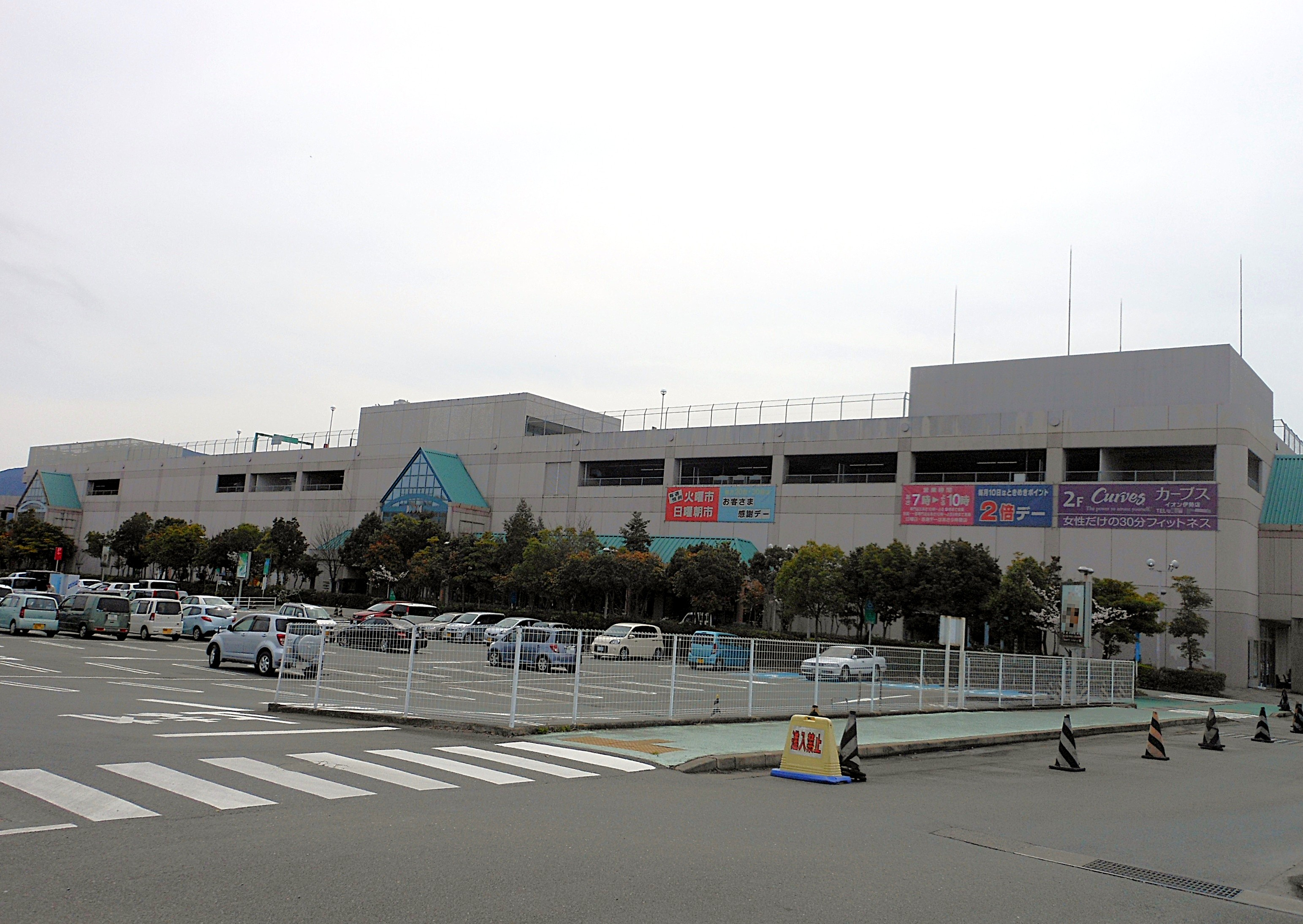 This is the Ise Shopping Center in Kusube-cho, Ise, Mie, Japan. AEON Ise Shop is the main tenant of the shopping center.